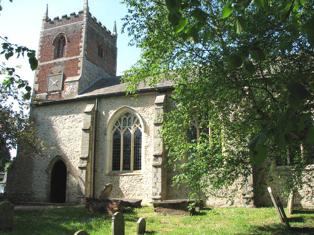 All Saints church